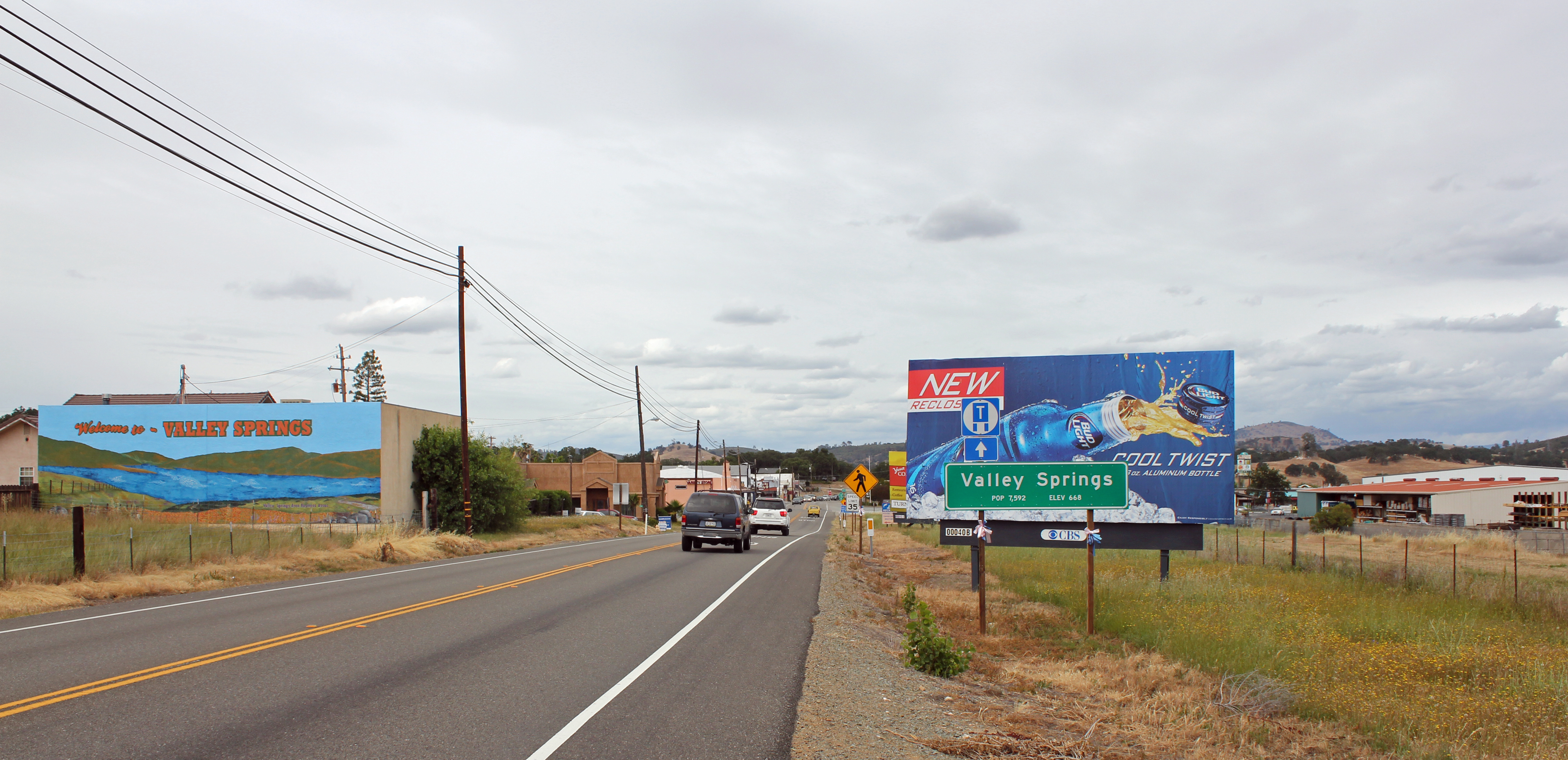 Valley Springs, California. The view is from the side of California Highway 12.